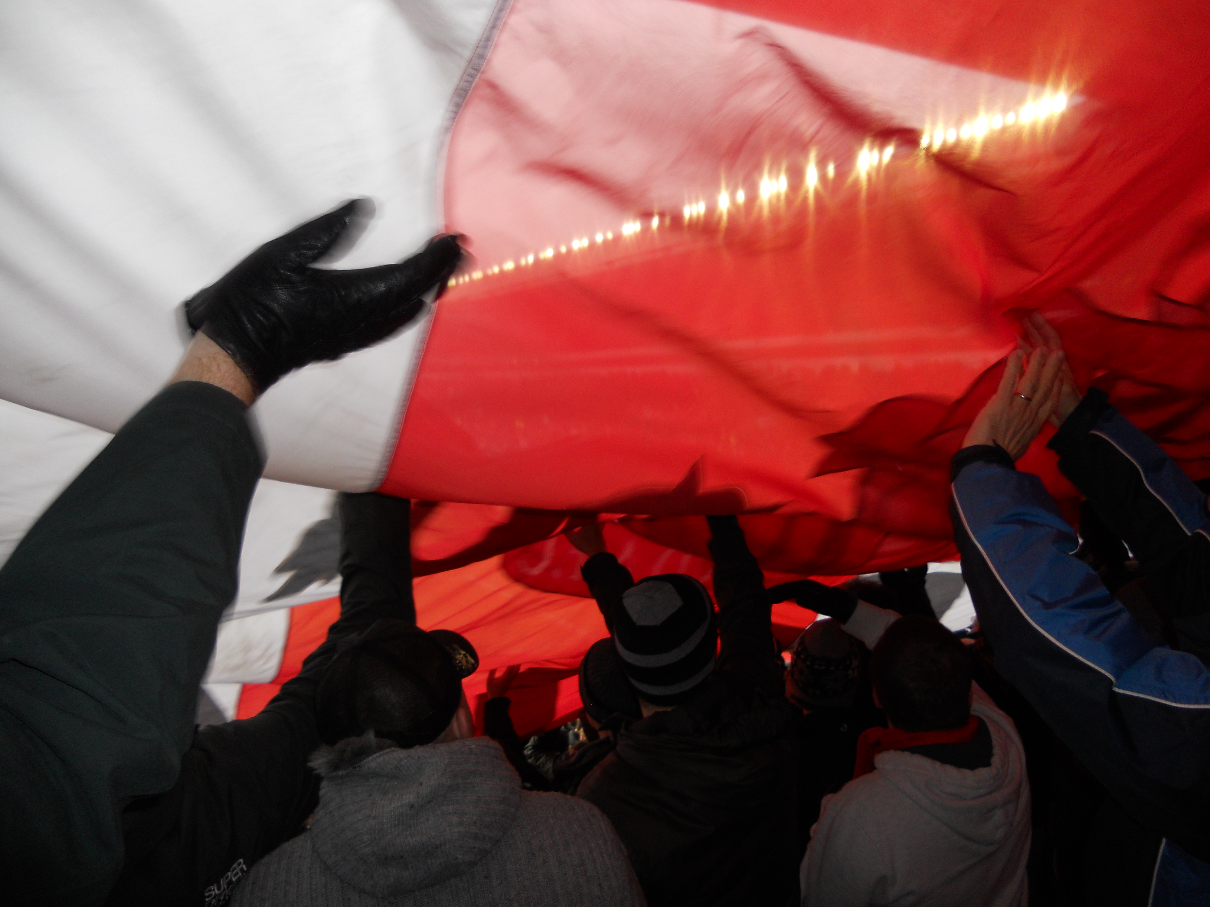 I was underneath a flag for 30 seconds and decided to take my photo from there.